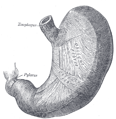 The oblique muscular fibers of the stomach, viewed from above and in front. (Spalteholz.)